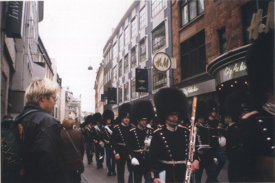 Copenhagen.